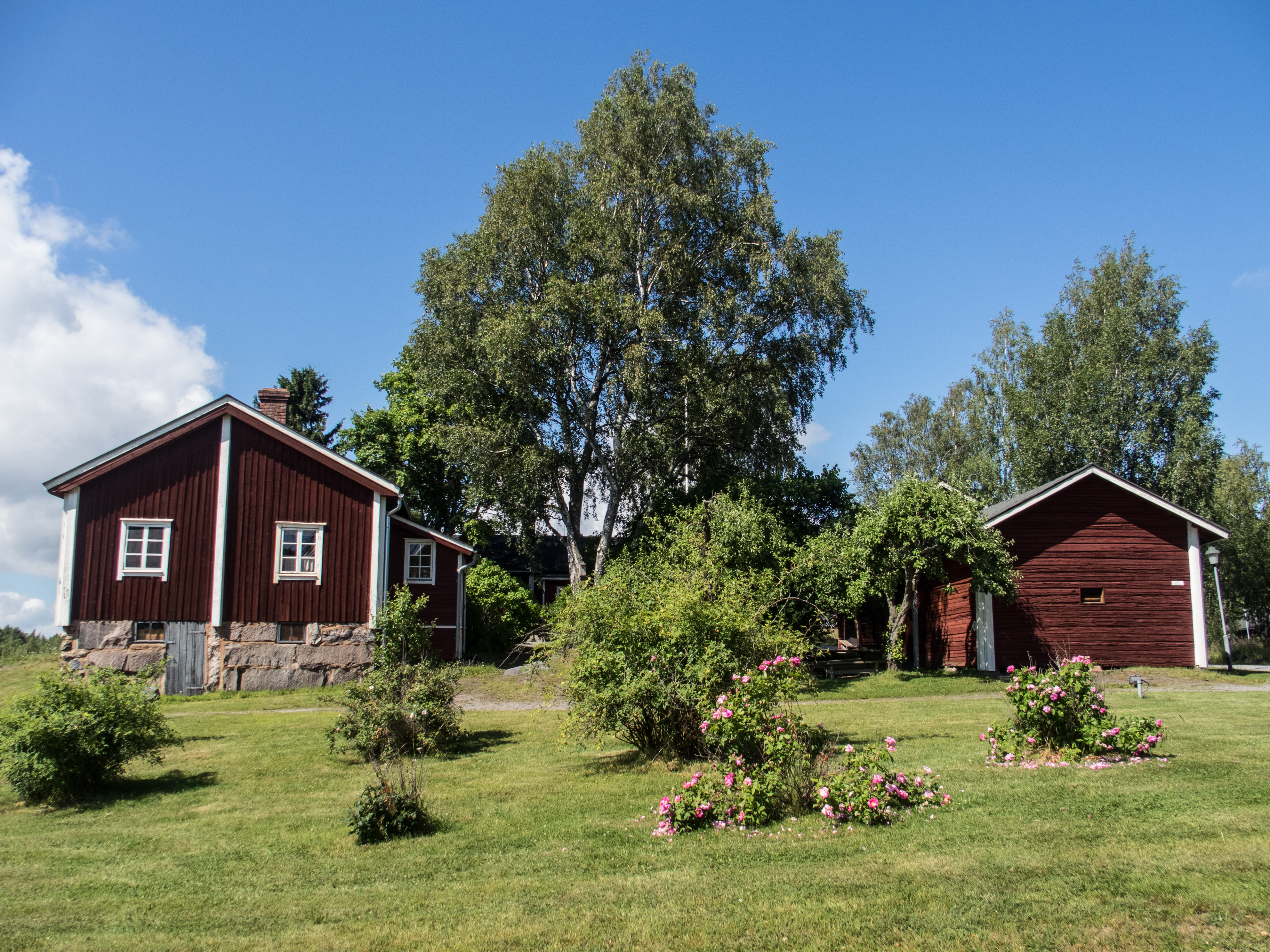 Krookila farmhouse museum, Raisio, Finland.